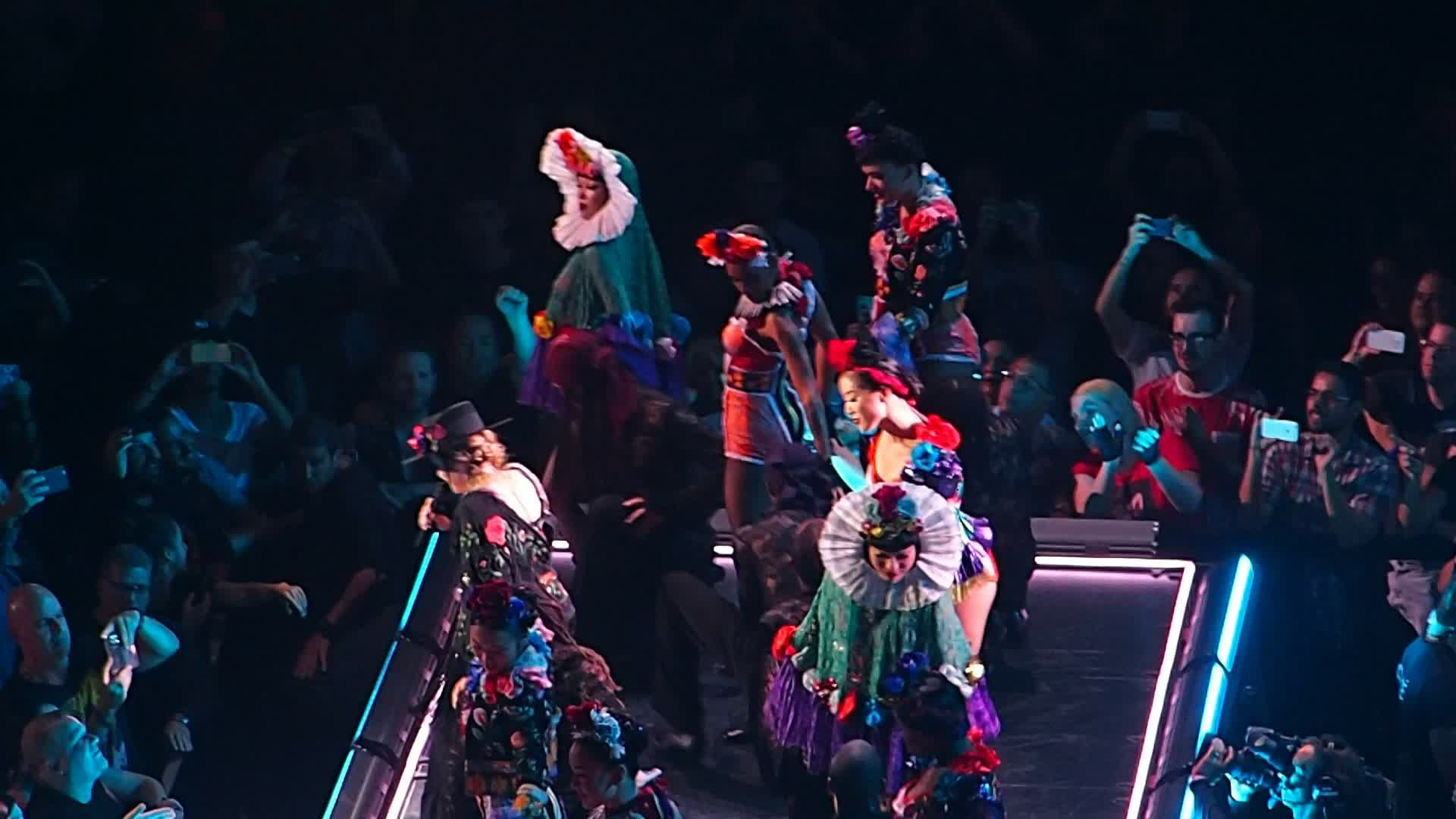 Madonna, Rebel Heart Tour, Dress You Up, Bell Center, Montréal, 10 September 2015 Madonna performing on the Rebel Heart Tour